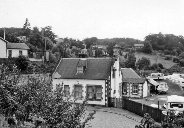 Bridge of Allan Station. Original station. View NW (approx.), towards Perth etc.; ex-Caledonian Glasgow - Stirling - Perth main line. (The station is still open - and I apologise for this poor picture: the line is just about visible behind the prominent house, which may or may not have belonged to the Station).